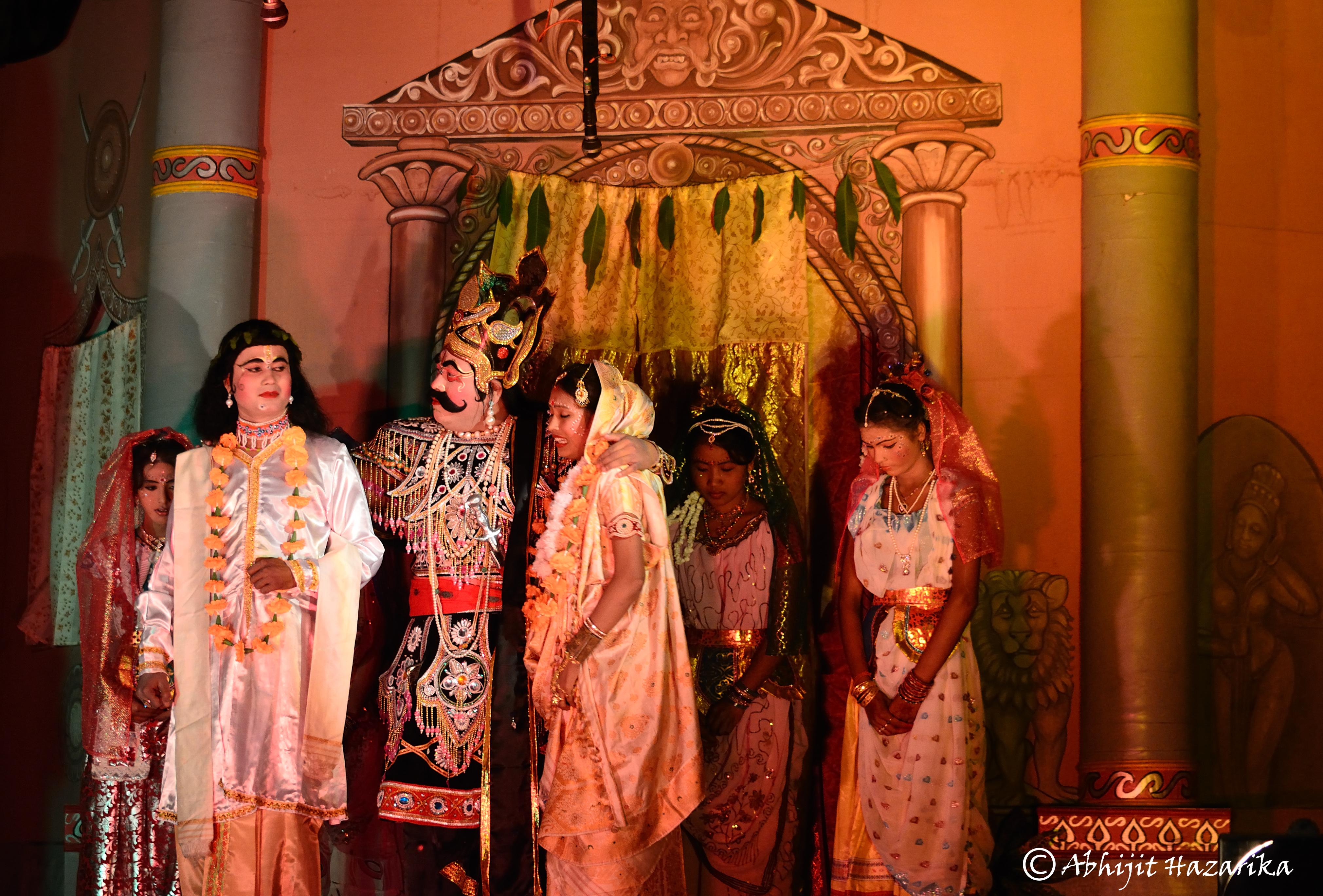 A glimpse of Raas Mahotsav in Majuli